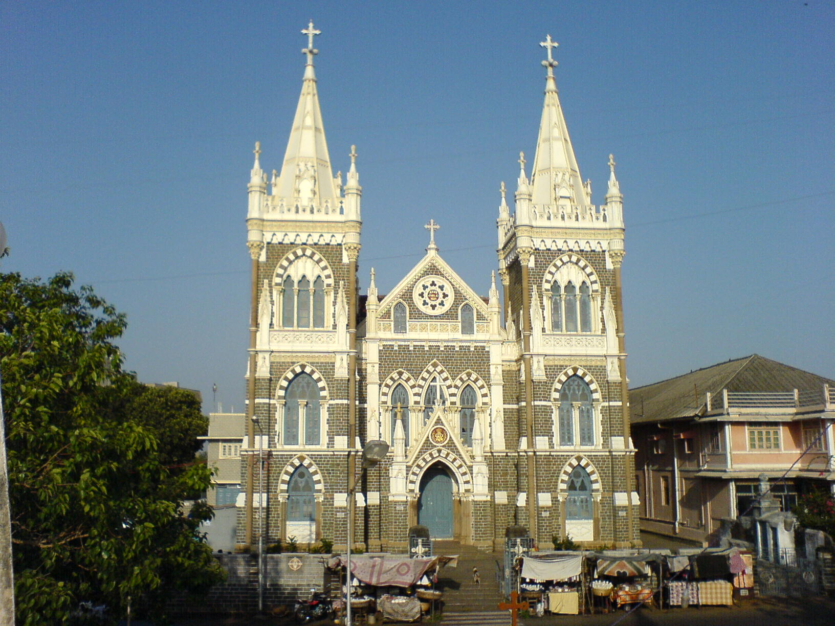 The Basilica of Our Lady of the Mount, more commonly known as Mount Mary, is a Roman Catholic church in the city of Mumbai, India. The church is one of the most visited churches in the city located in the suburb of Bandra. Every September, the feast of Mount Mary is celebrated on the Sunday following 8 September, the birthday of the Virgin Mary. This is a week long celebration known as the Bandra Fair and is visited by thousands of people.